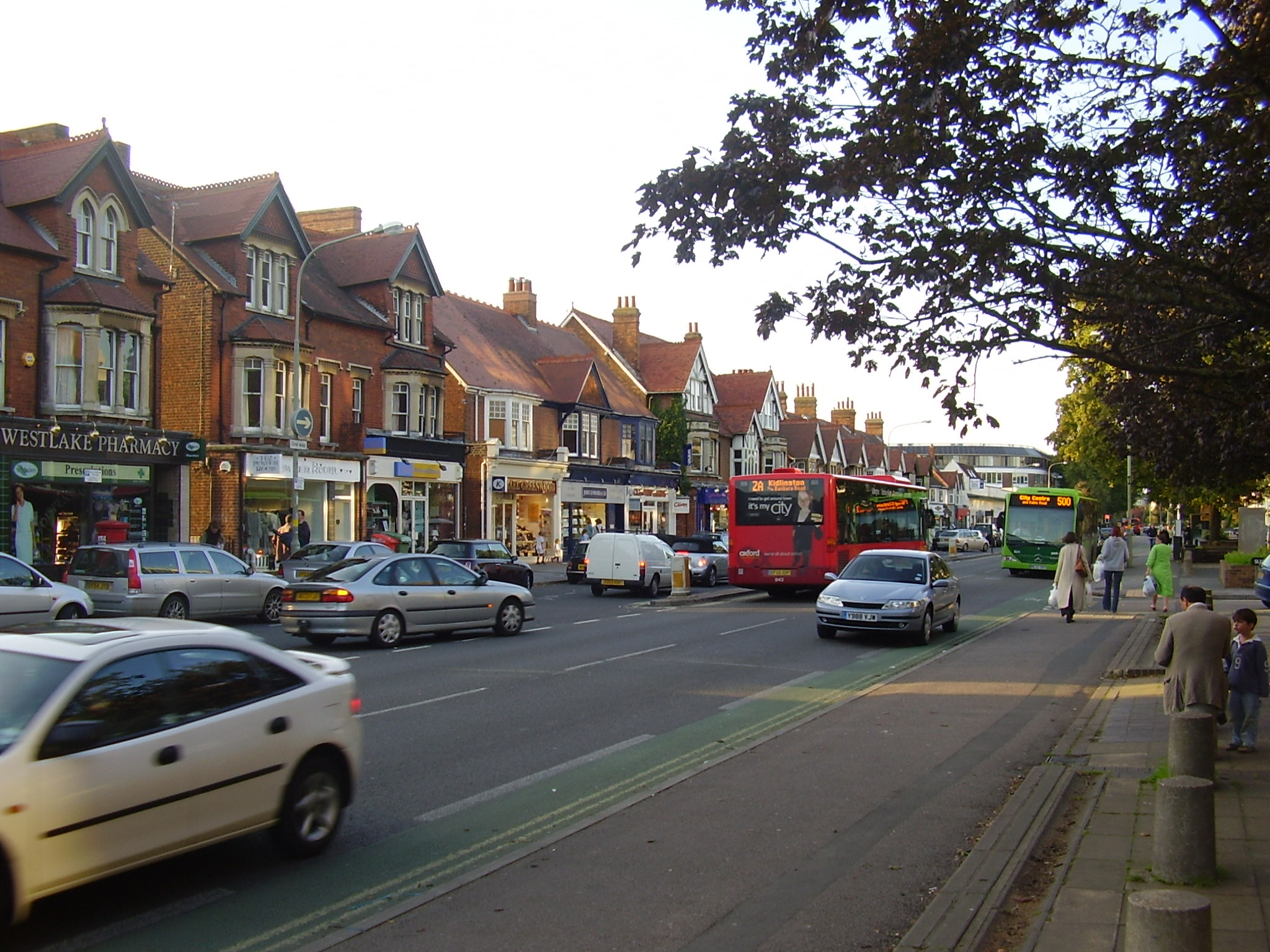 View north along part of Summertown Parade, Banbury Road, Summertown, Oxford